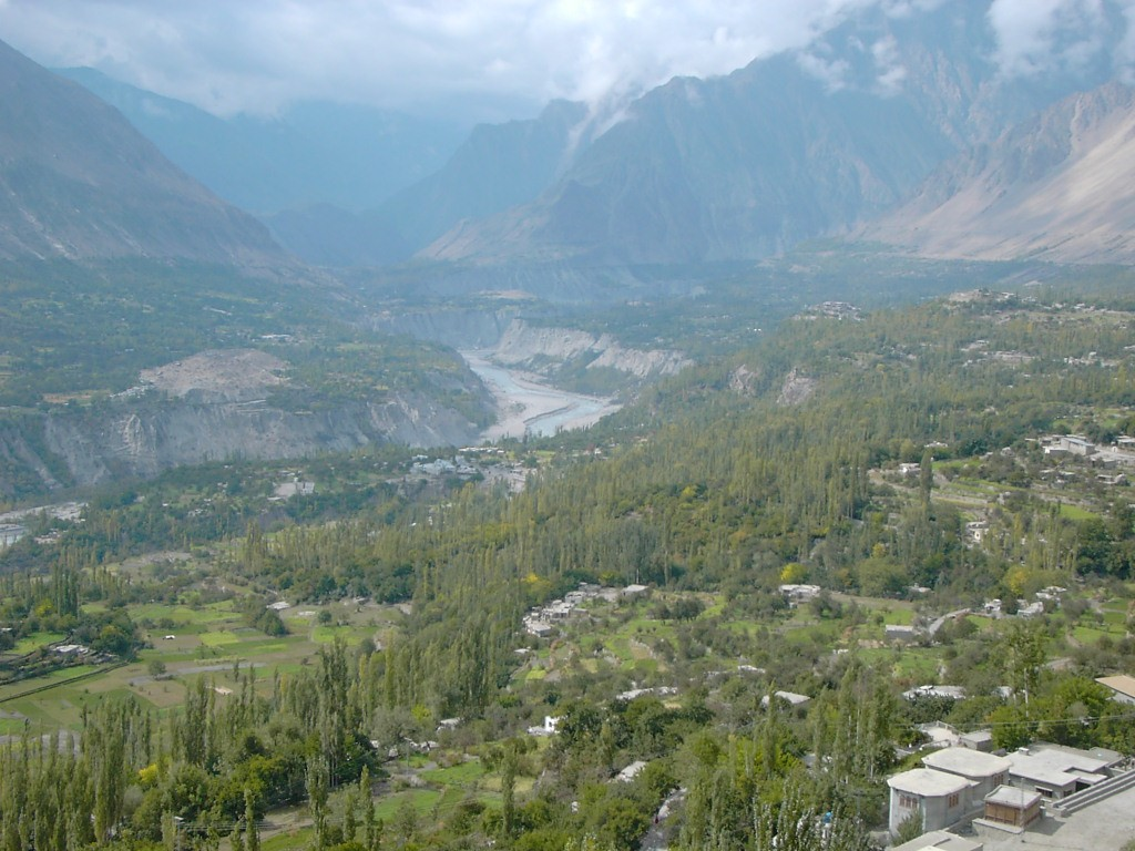 Overview of the Hunza valley, Pakistan. Photo by Joonas Lyytinen